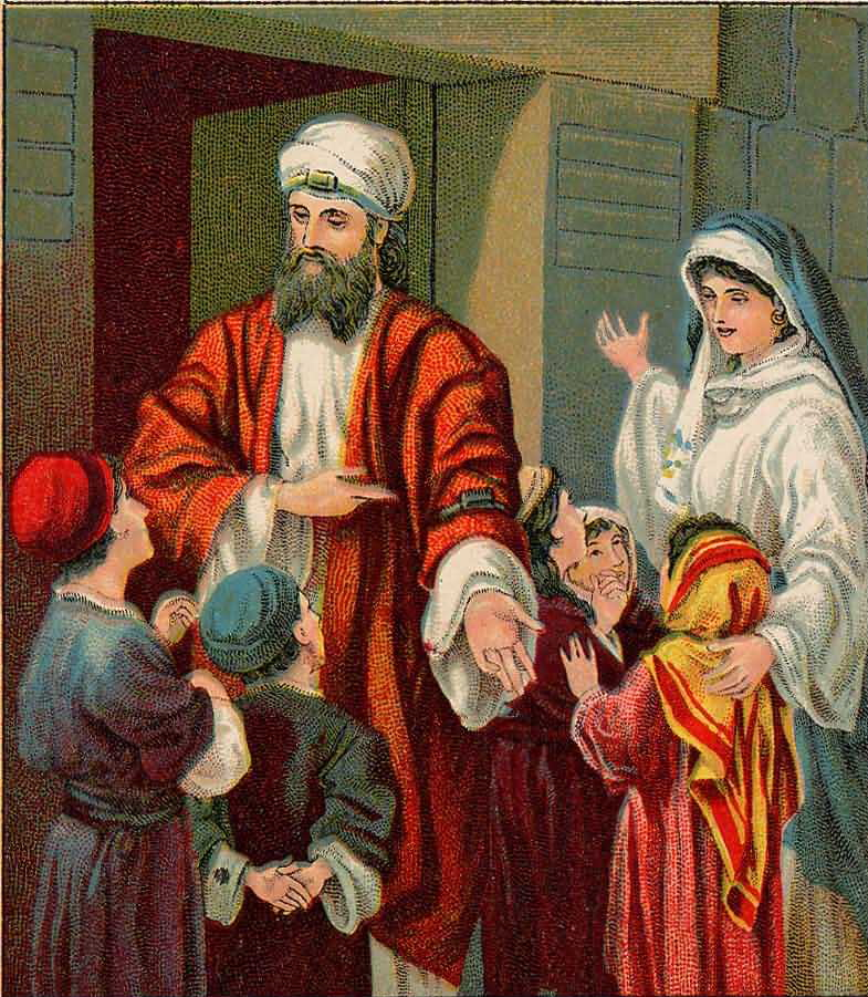 Tie them as symbols on your hands, as in Deuteronomy 6, illustration showing man with tefillin from a Bible card published by the Providence Lithograph Company